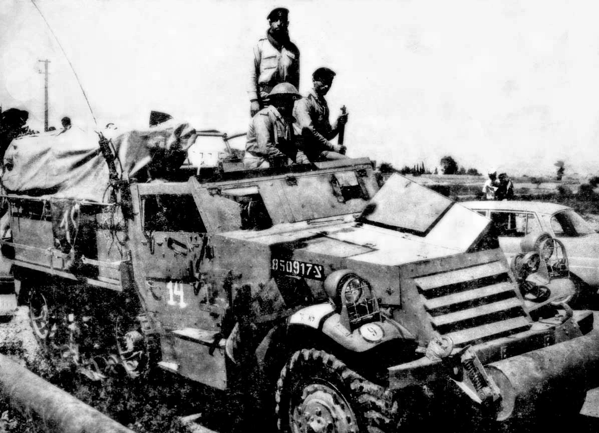 Al Karama Battle Aftermath 21 March 1968